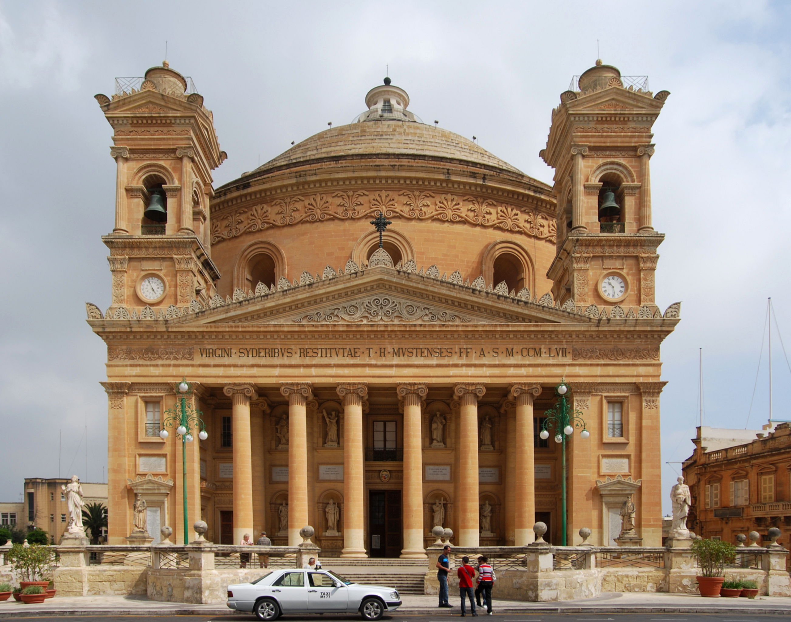 Mosta Dome in the city of Mosta, Malta. 1942 attacked by the German army.